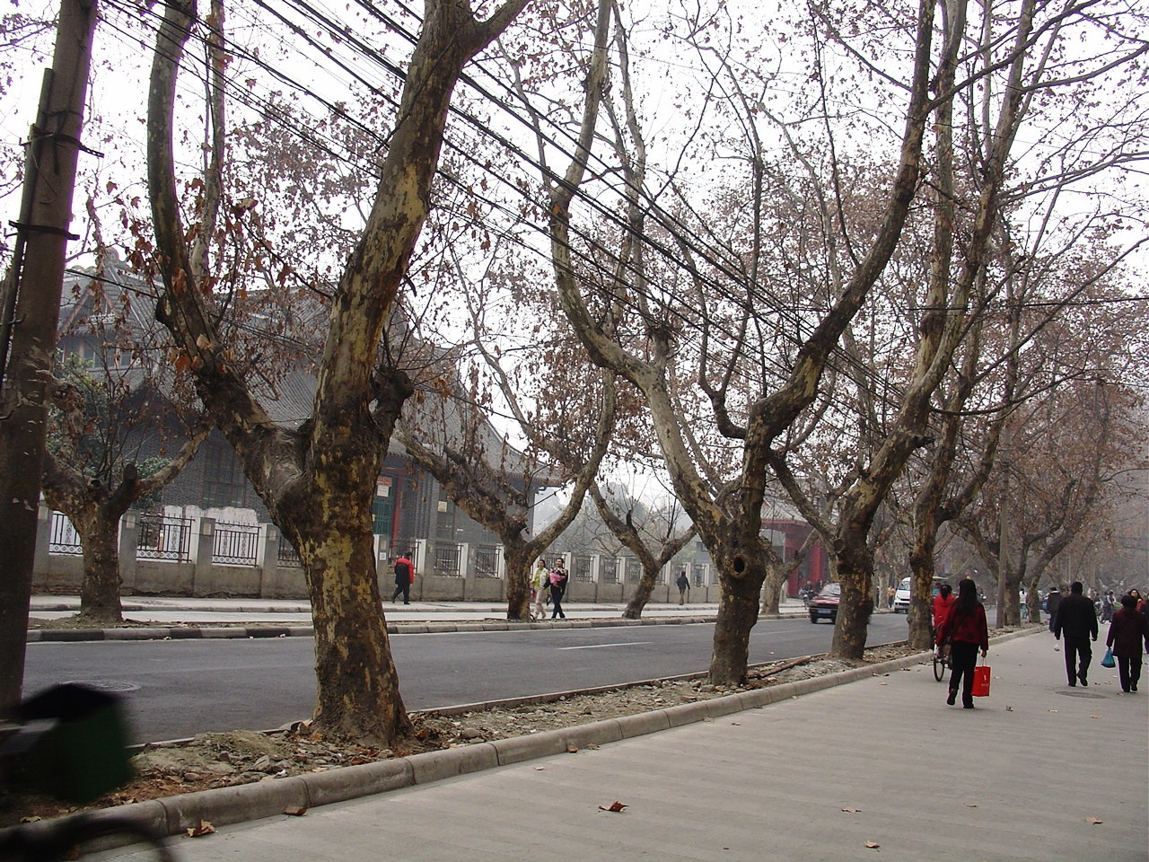 picture of Daxue Road, China(大学路街道即景)